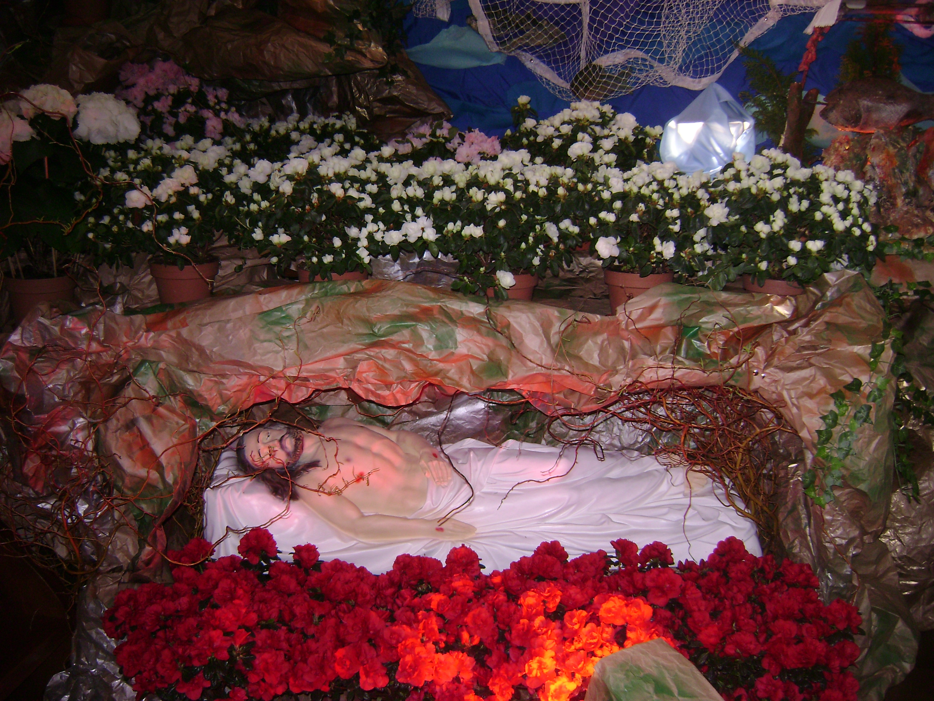 Easter 2010